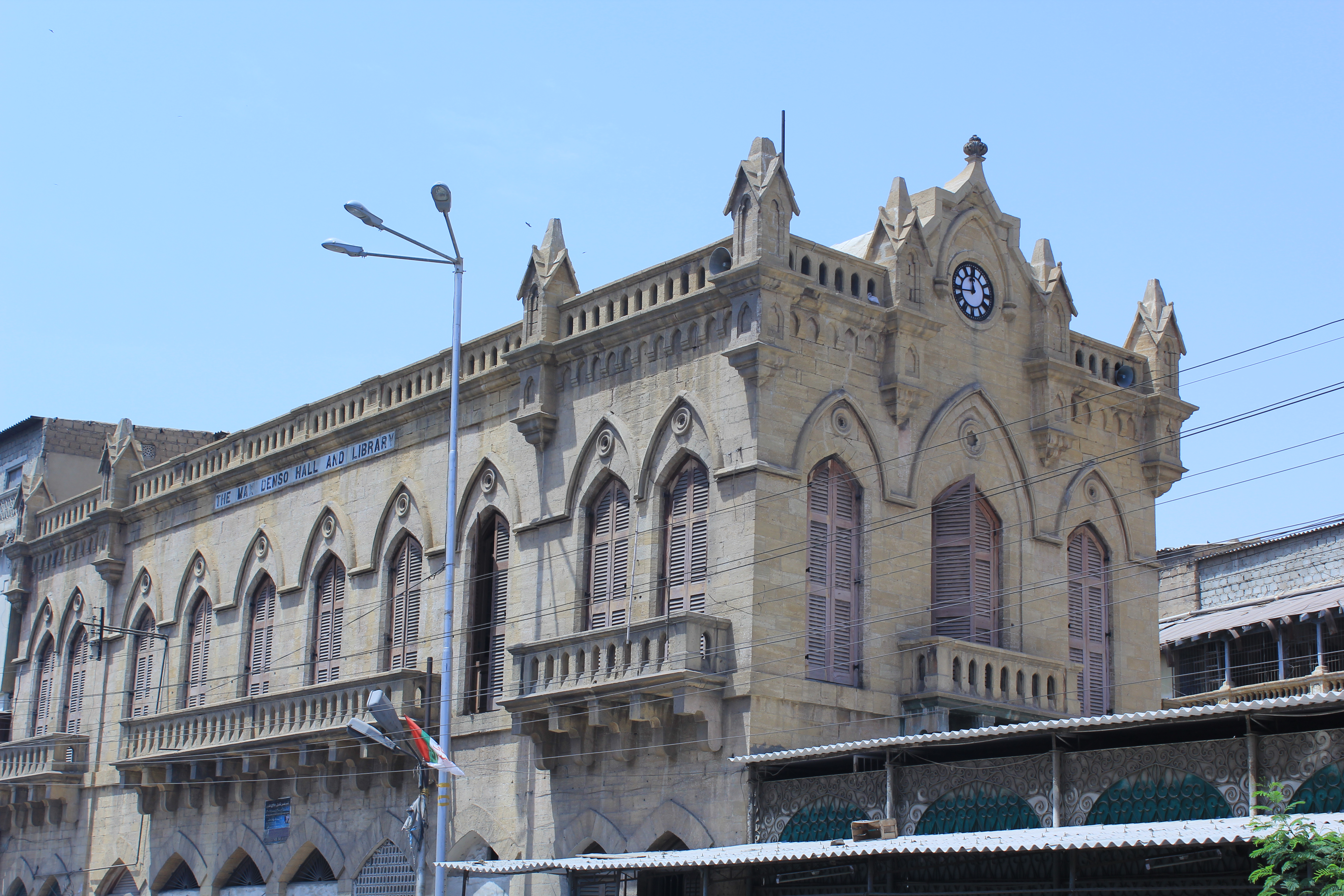 Denso Hall This is a photo of a monument in Pakistan identified as the SD-P-18